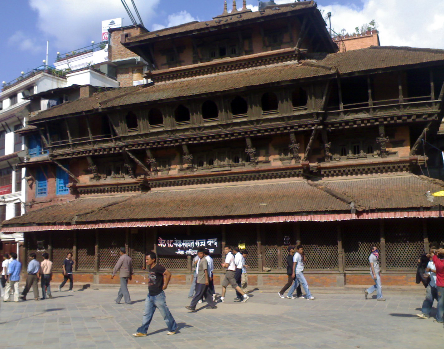 Historic building of Dhansa Dega at Maru, Kathmandu.